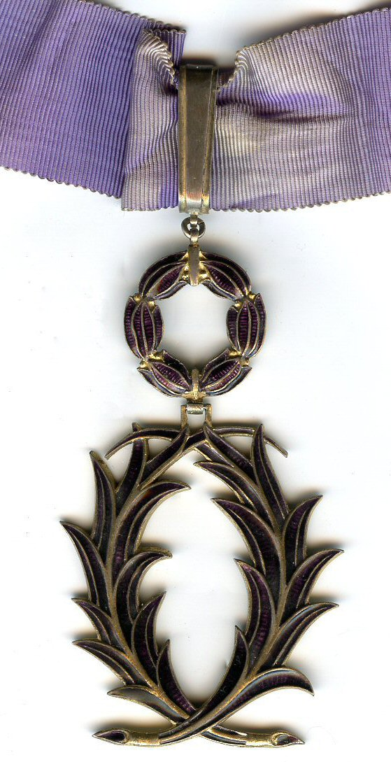 Commander of the Order of Academic Palms (obverse) France